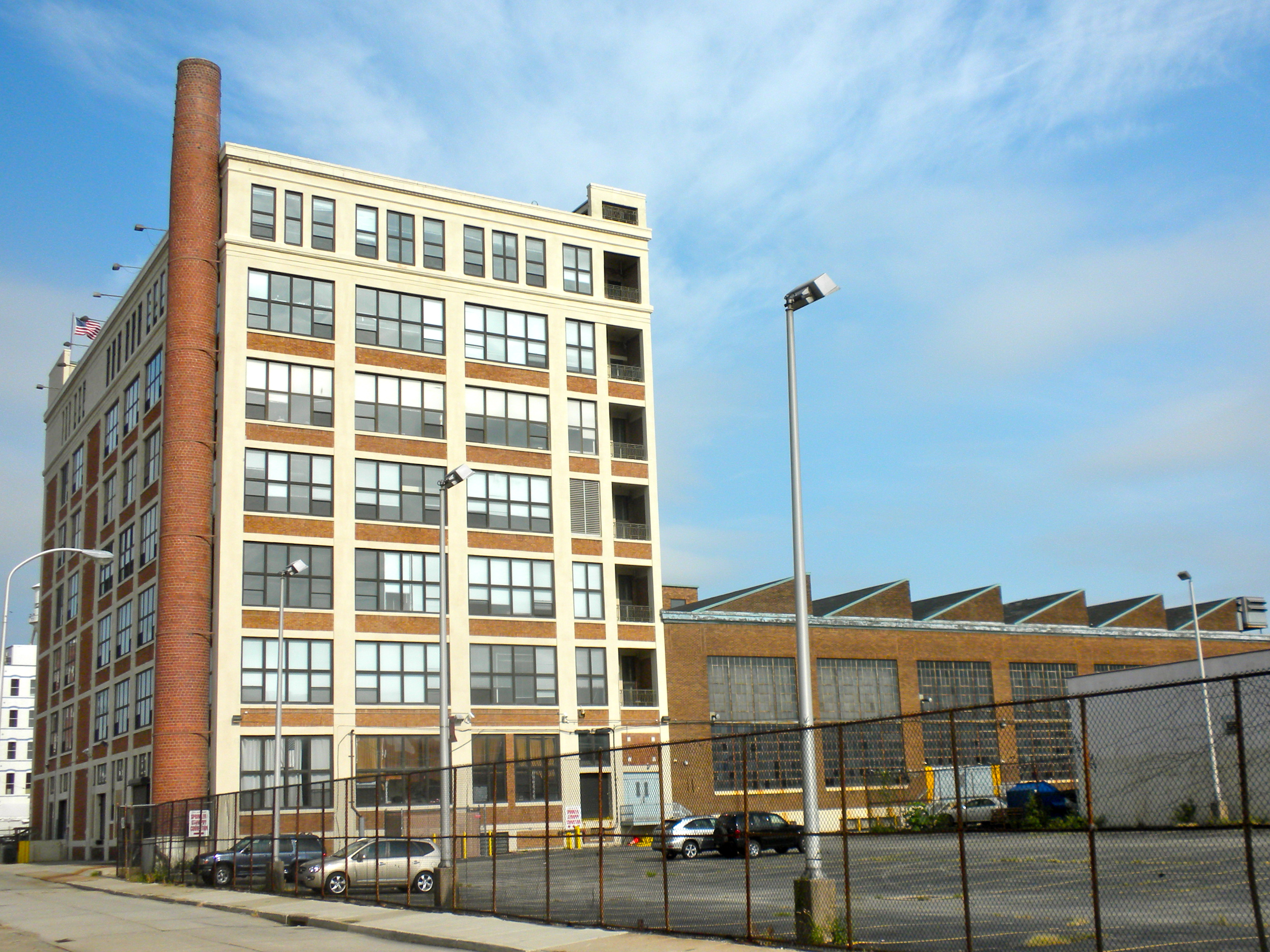 General Electric Switchgear Plant on the NRHP since October 31, 1985. At Seventh and Willow Sts., Philadelphia in Callowhill neighborhood of North Philly. Now partially empty, partially used as a music venue, partially other.